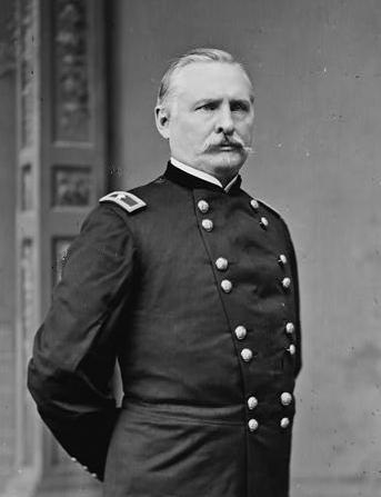 Gen. R.C. Drum U.S.A.